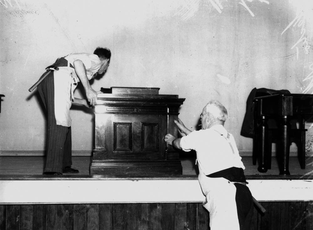 Workmen preparing the Rosalie School of Arts for an Elections Tribunal, 1938 Caption on photo: There hasn't been an Elections Tribunal constituted in Queensland for over 20 years. Tomorrow, Mr. Justice E.A. Douglas hears the appeal against the election of Mr. E.M. Hanlon, Minister for Home Affairs, and workmen are busy making a court out of the Rosalie School of Arts.